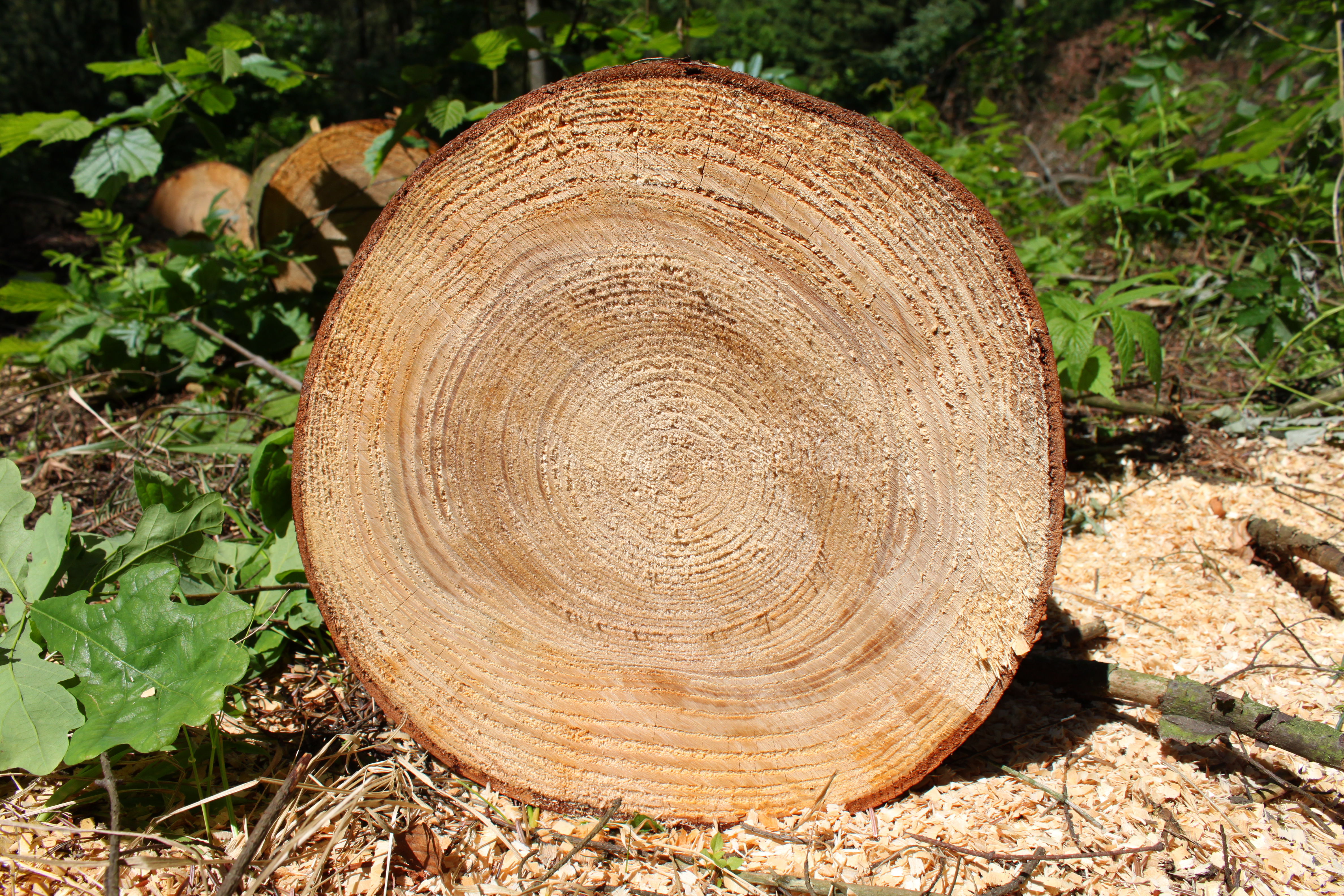 Grand Fir (Abies grandis) cross section, Rogów Arboretum, Poland